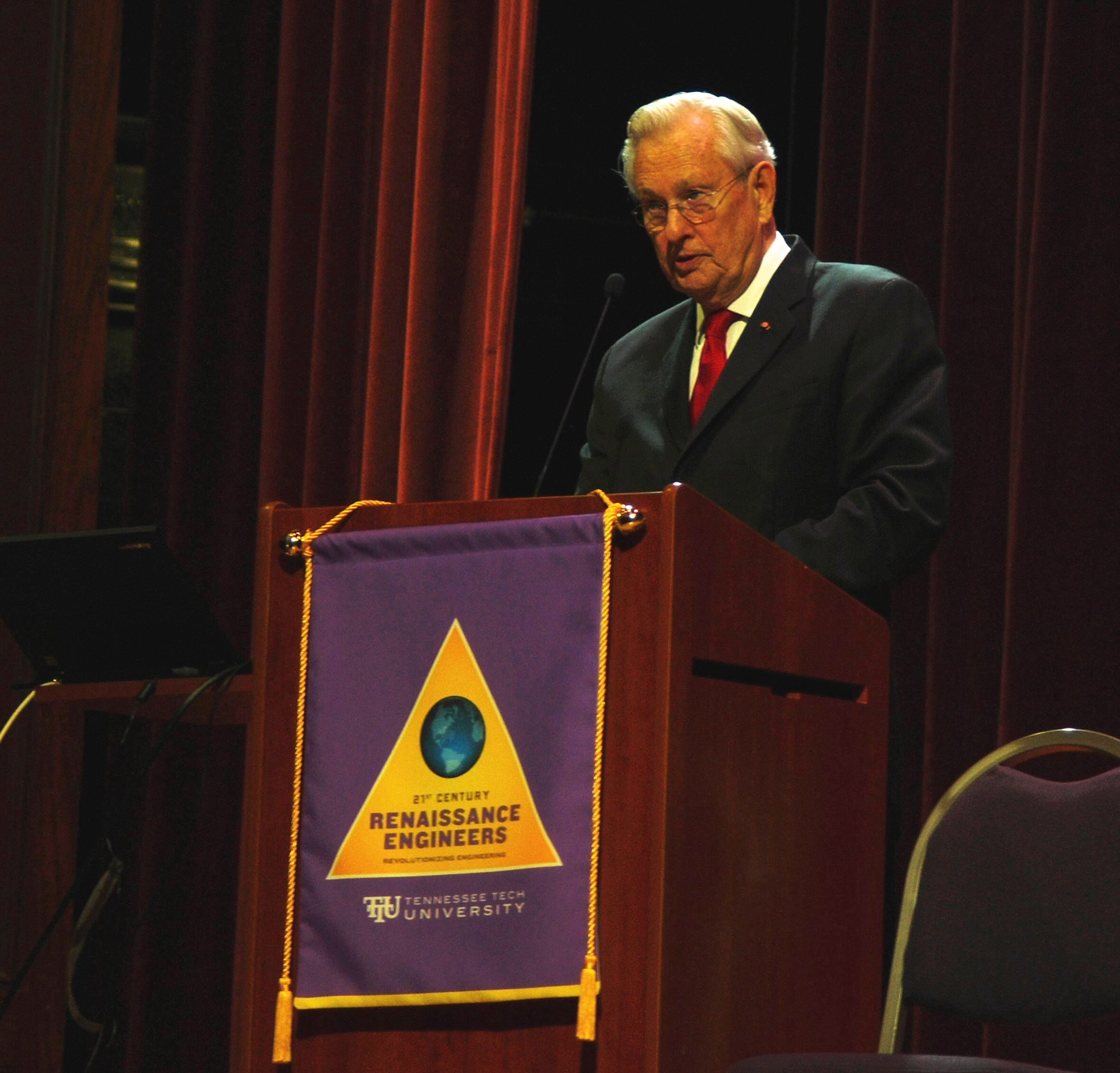 Former National Science Foundation director Arden Bement delivering his lecture on the "Role of Innovation and Entrepreneurship in Science and Engineering Education," at Tennessee Technological University.